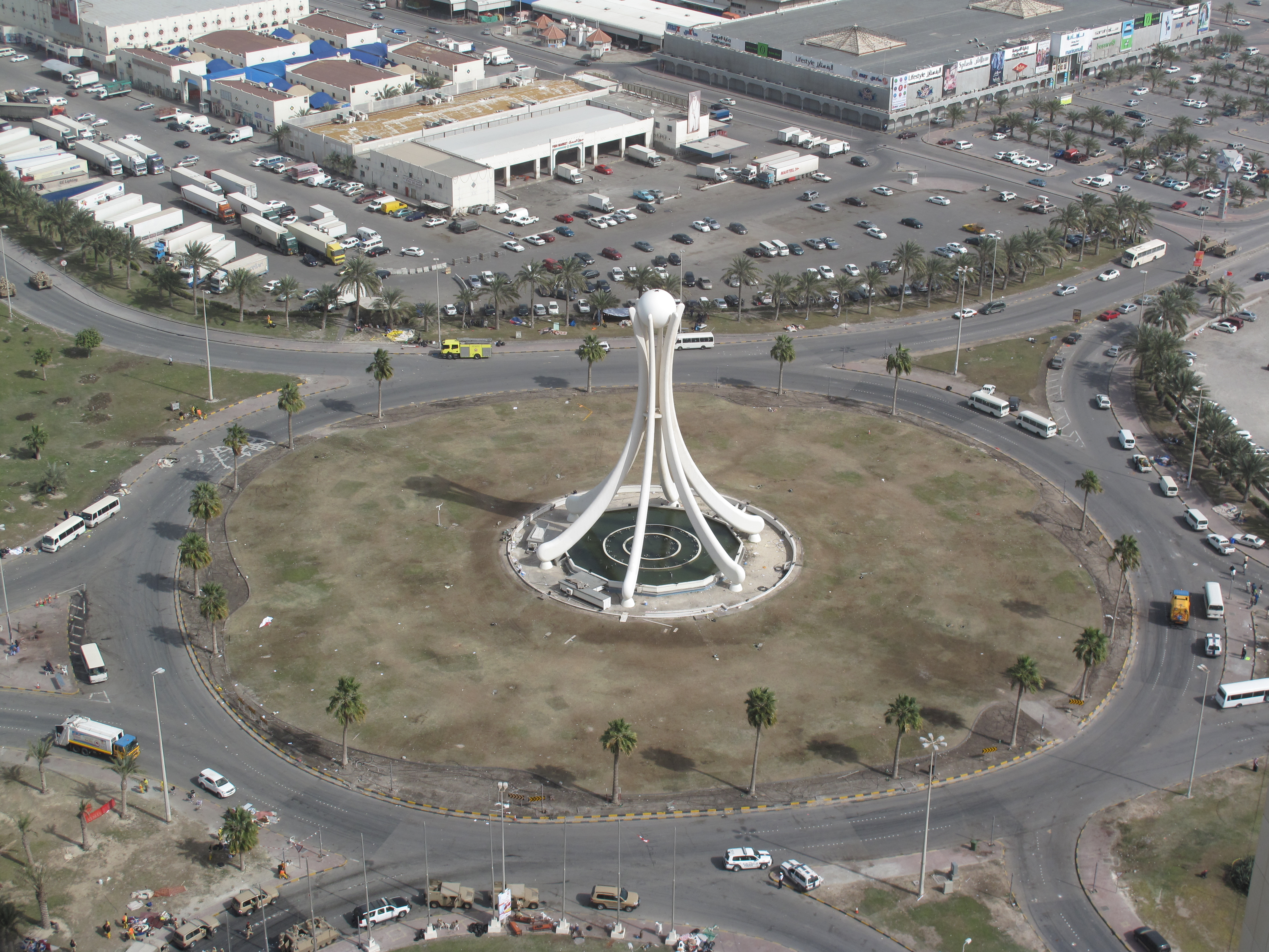 Pearl Roundabout completely cleared of protesters and tents -2